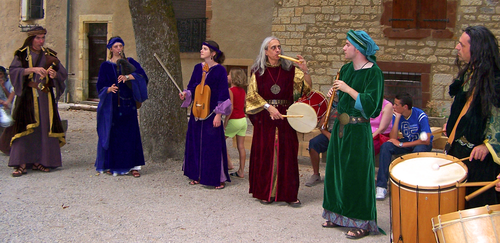 Musicians in medieval dress, Cordes-sur-Ciel (France)